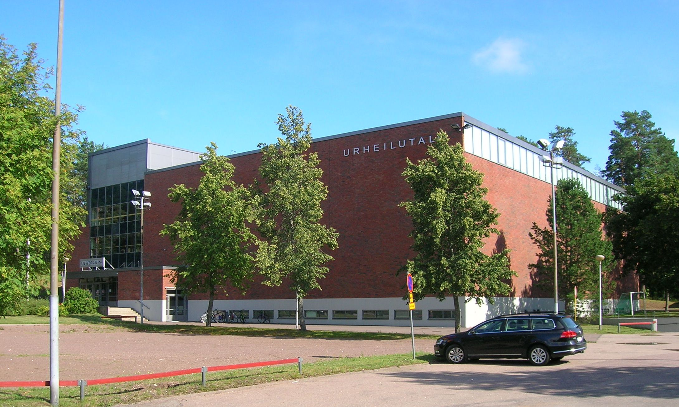 Steveco Areena, formerly Karhuvuoren urheilutalo, an indoor arena in Karhuvuori suburb of Kotka, Finland.